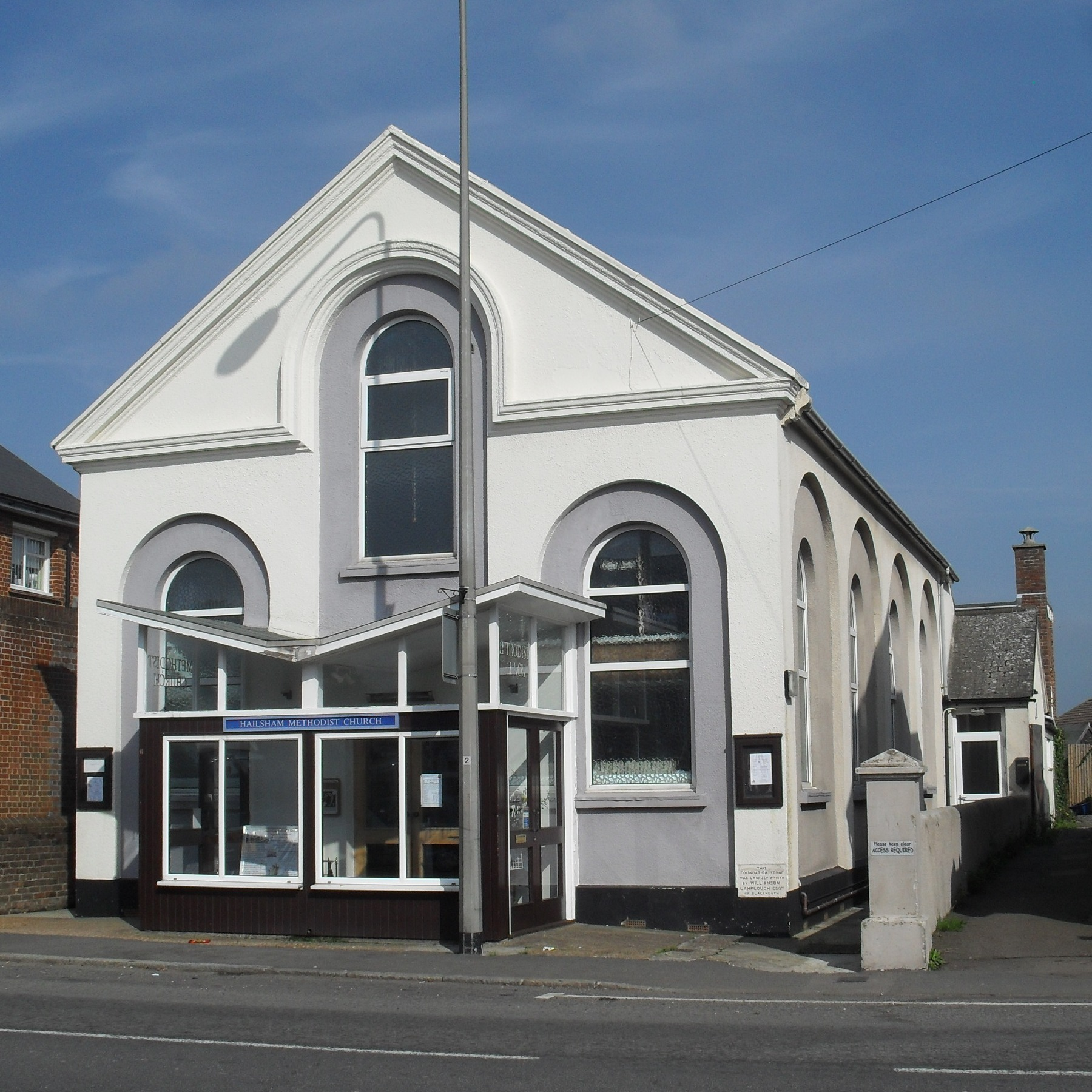 Hailsham Methodist Church, High Street, Hailsham, Wealden, East Sussex, England.